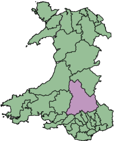 Brecknock Area of Search